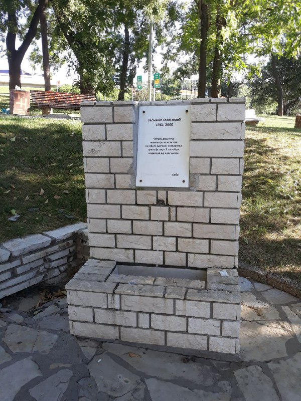 Building in Belgrade.